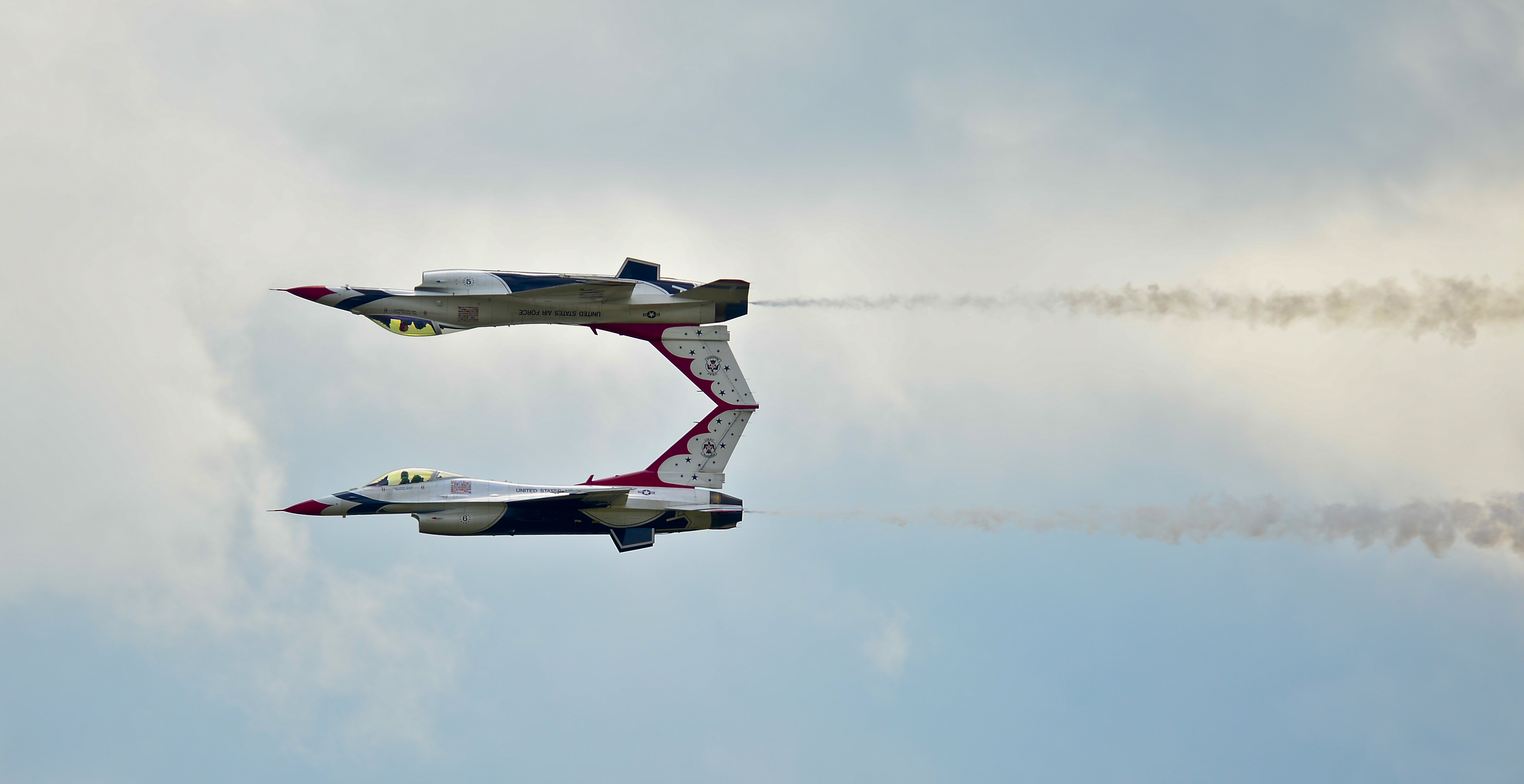 Two U.S. Air Force Thunderbird F-16 Fighting Falcons execute a precision acrobat technique for a crowd March 23, 2014, at MacDill Air Force Base, Fla. The Thunderbirds performed for more than 185,000 during the MacDill AFB presents Tampa Bay AirFest 2014.